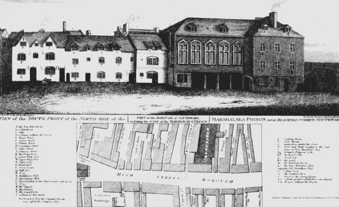 The first Marshalsea prison on Borough High Street, Southwark, showing the south front of the north side, 1773. The building with columns, second from the right, housed a courtroom. The door to the strong room is on the farthest right of the building on the right. See Jerry White, "Pain and Degradation in Georgian London: Life in the Marshalsea Prison", History Workshop Journal, Volume 68, Issue 1, 2009 (pp. 69–98), pp. 80–81.